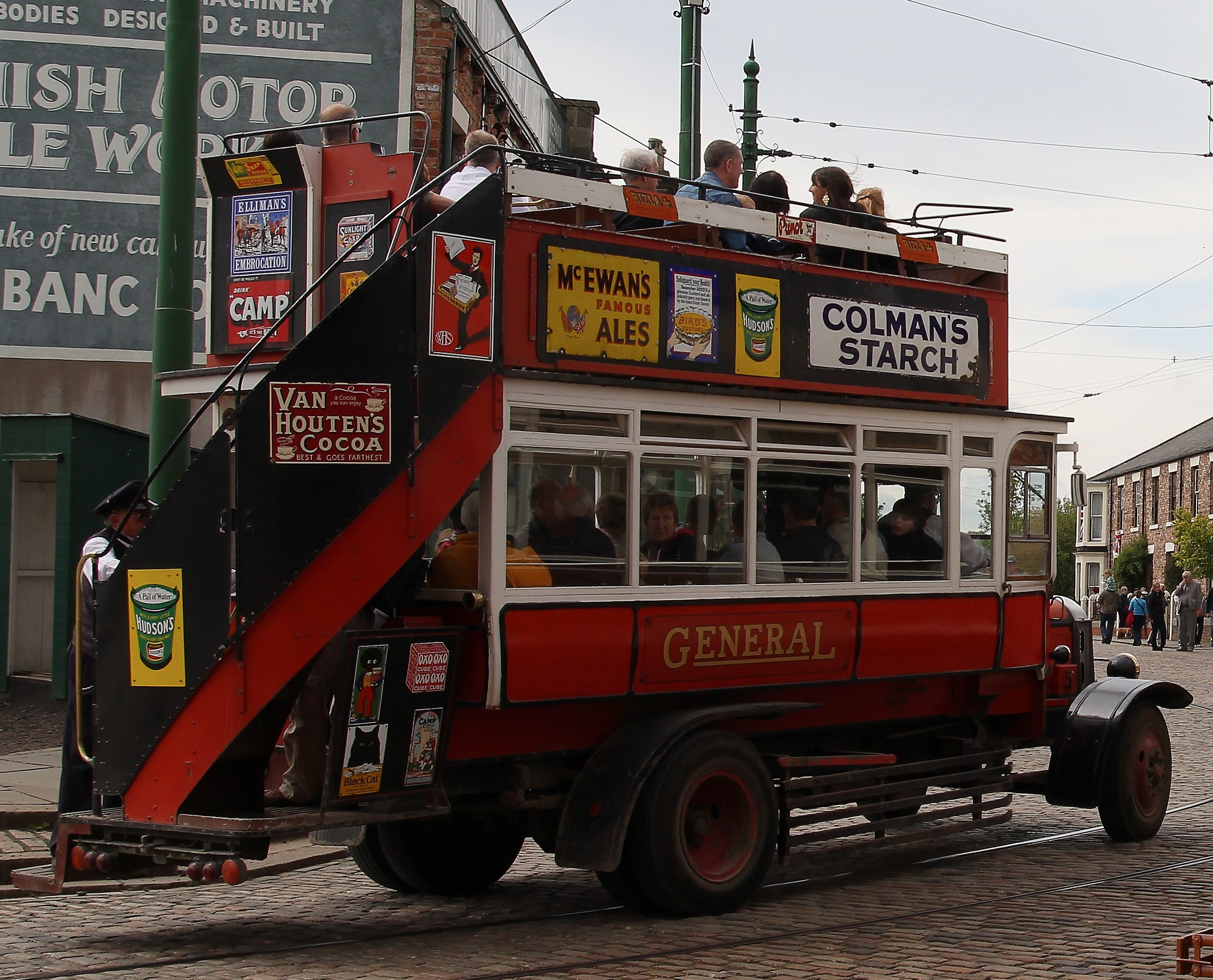 Beamish Museum B-Type replica bus B1349 (reg. DET 720D) at Beamish Museum, County Durham, England. It's seen here from the east, negotiating the main street curve in the Town.